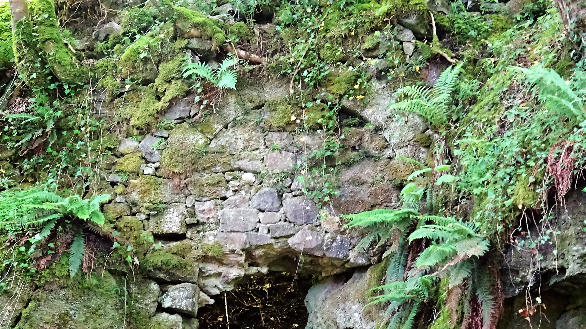 Duchal Castle, curtain wall, waste shute, well, etc. Exterior view from Burnbank Water side.